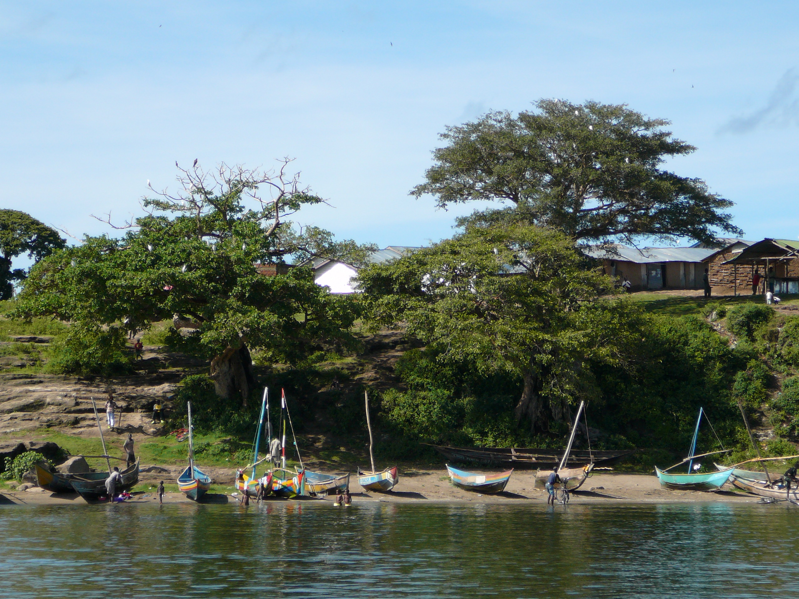 Rusinga Island, Lake Victoria, Kenya